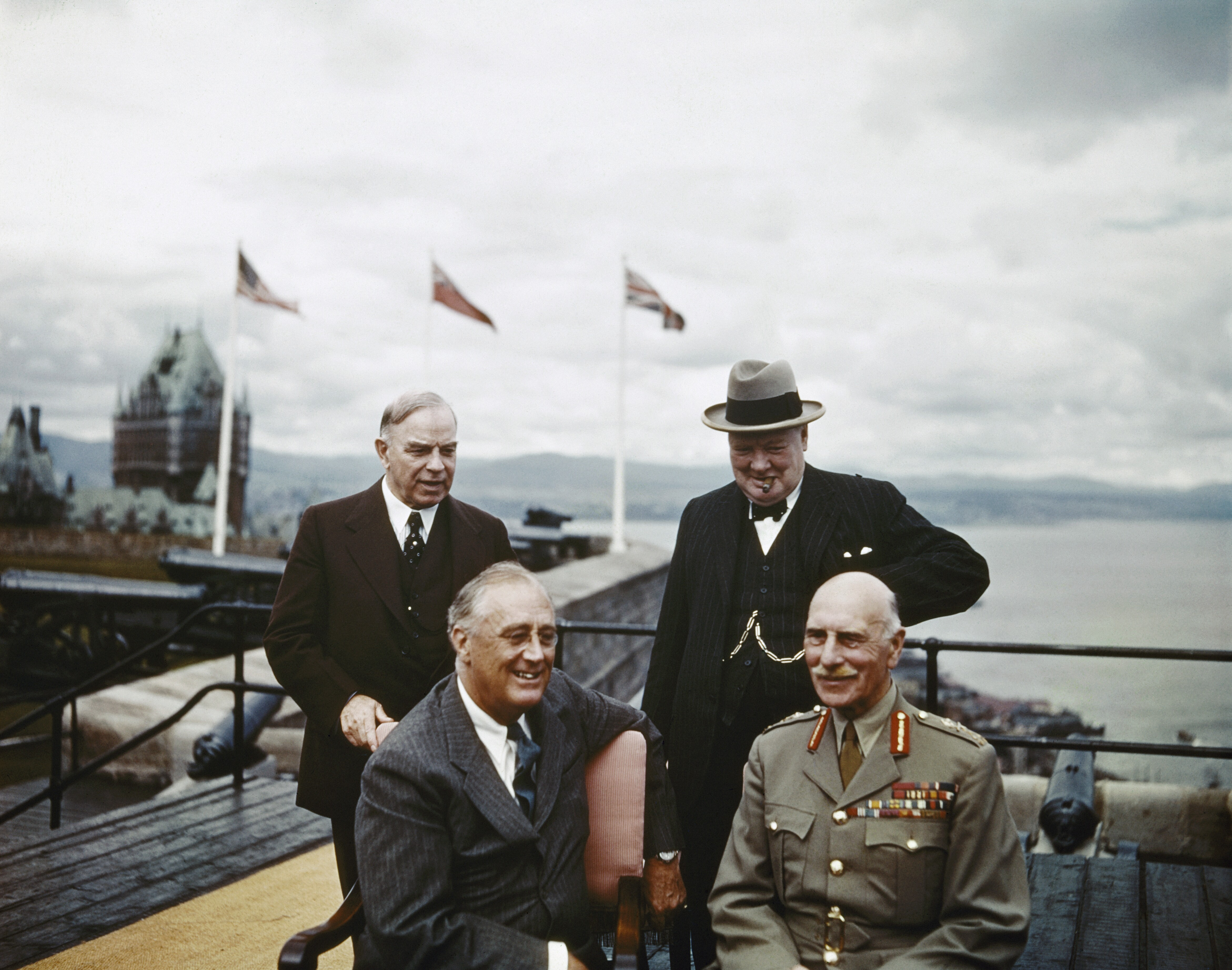 The Quebec Conference, Canada, August 1943 Group photograph on the terrace of the Citadel in Quebec, on the occasion of the First Quebec Conference, with the Chateau Frontenac in the background. Front row: President Roosevelt of the United States and the Earl of Athlone, Governor General of Canada; back row: Mr Mackenzie-King, Prime Minister of Canada and the Prime Minister, the Right Hon Winston Churchill, MP.